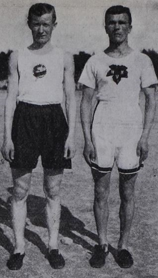 Finnish long distance runners V. J. Kämäräinen (1892-1945) and Urho Tallgren (1894-1959).